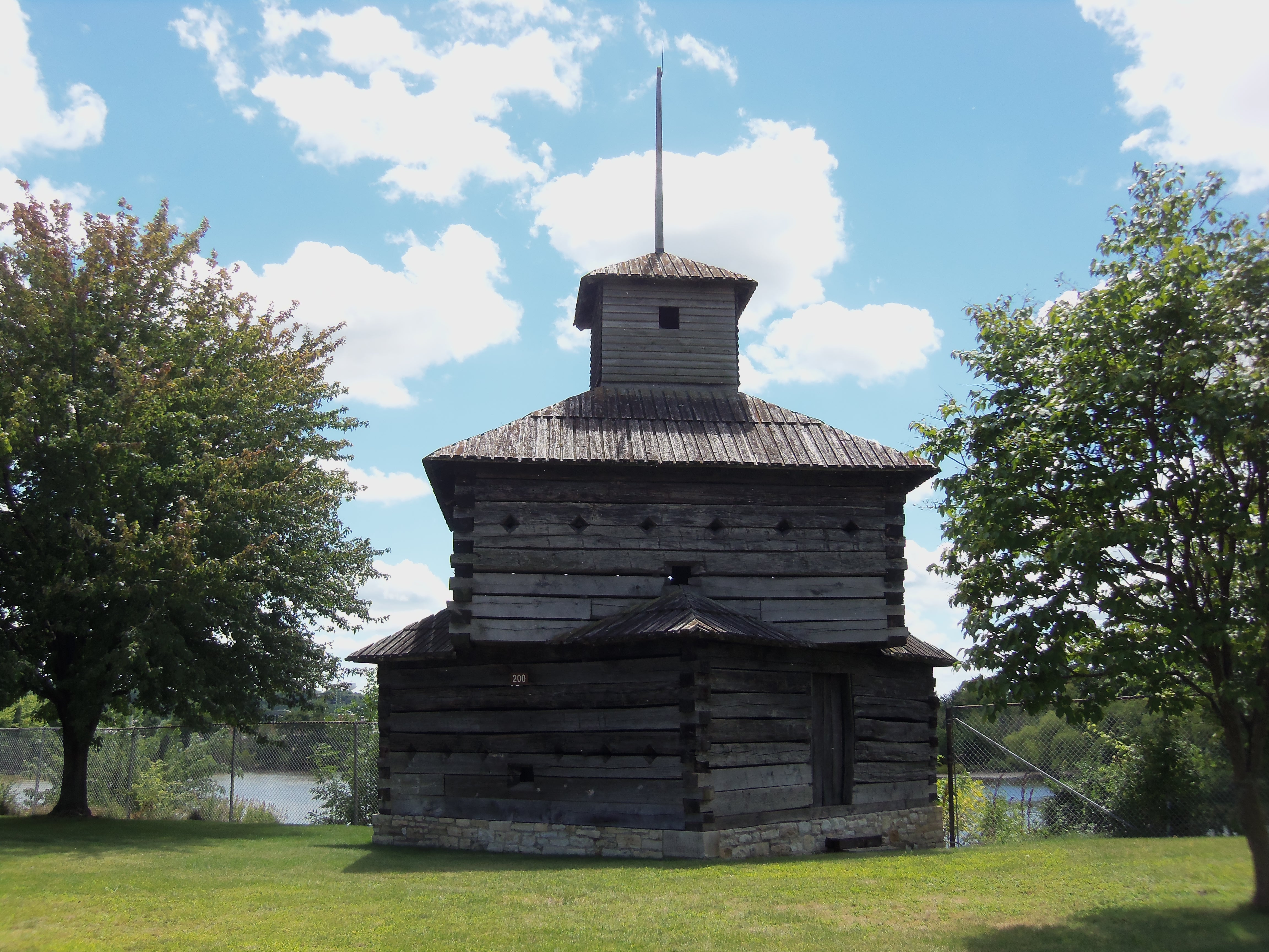 Replica of a blockhouse at Fort Armstrong on Arsenal Island in Rock Island, Illinois.